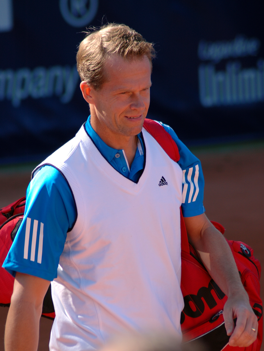 Stefan Edberg in Paris Senior tour Open 2009, Trophée Lagardère, Croix Catelan.